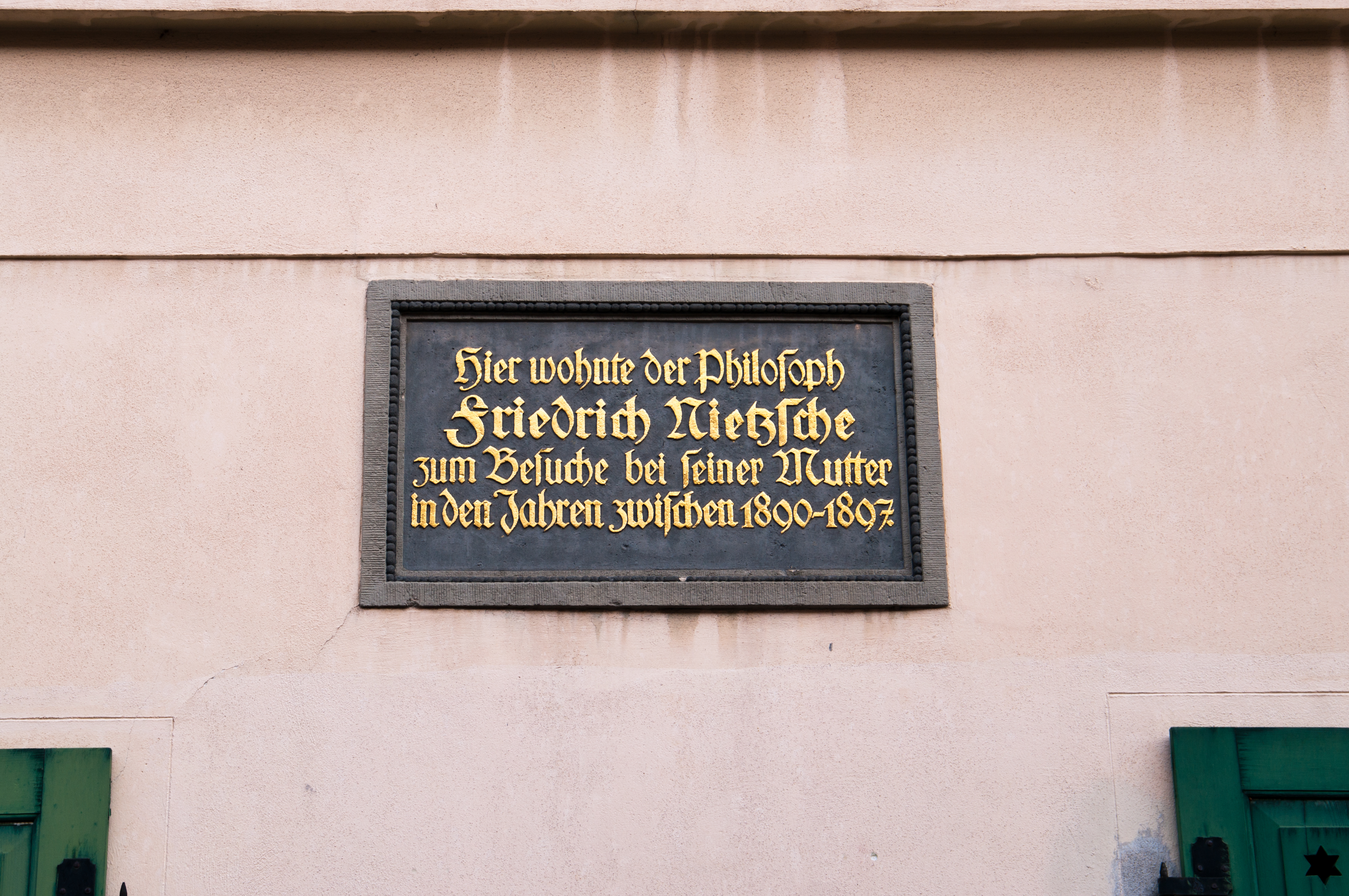 plaque commemorating Friedrich Neitzsche who stayed in Naumburg to visit his mother